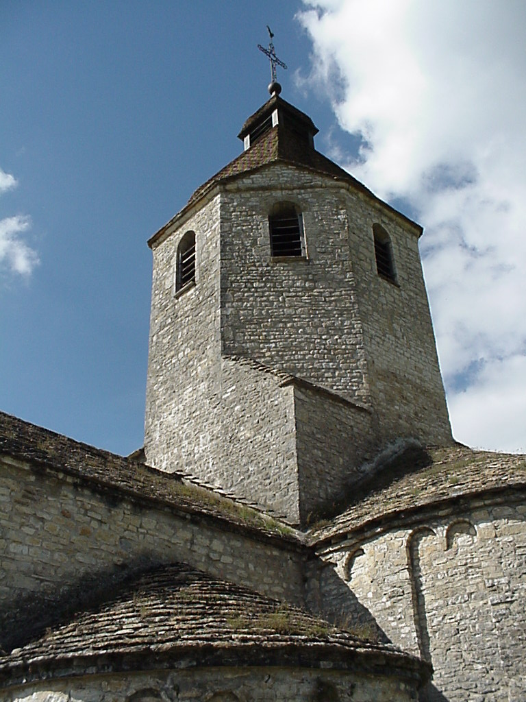 church of Saint-Hymetière in Jura, France